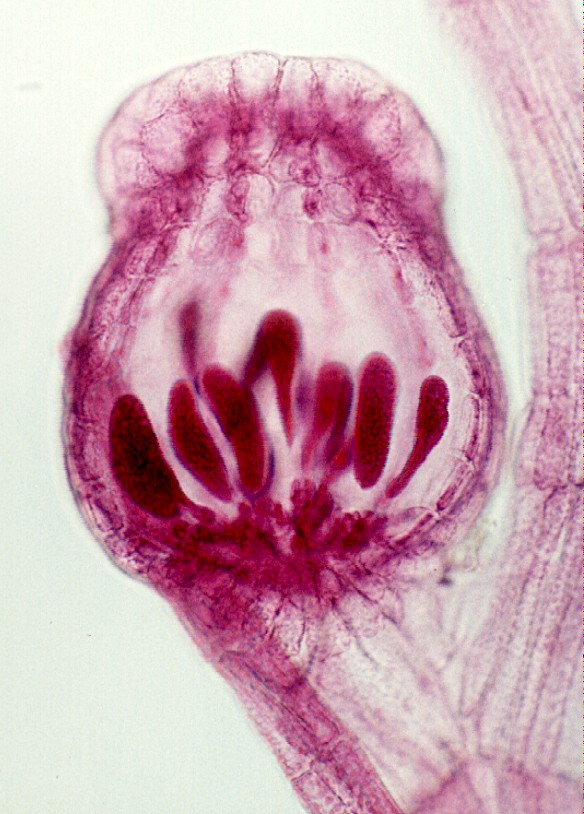 Light micrograph of a whole-mount slide of the cystocarp and carposporophyte of Polysiphonia